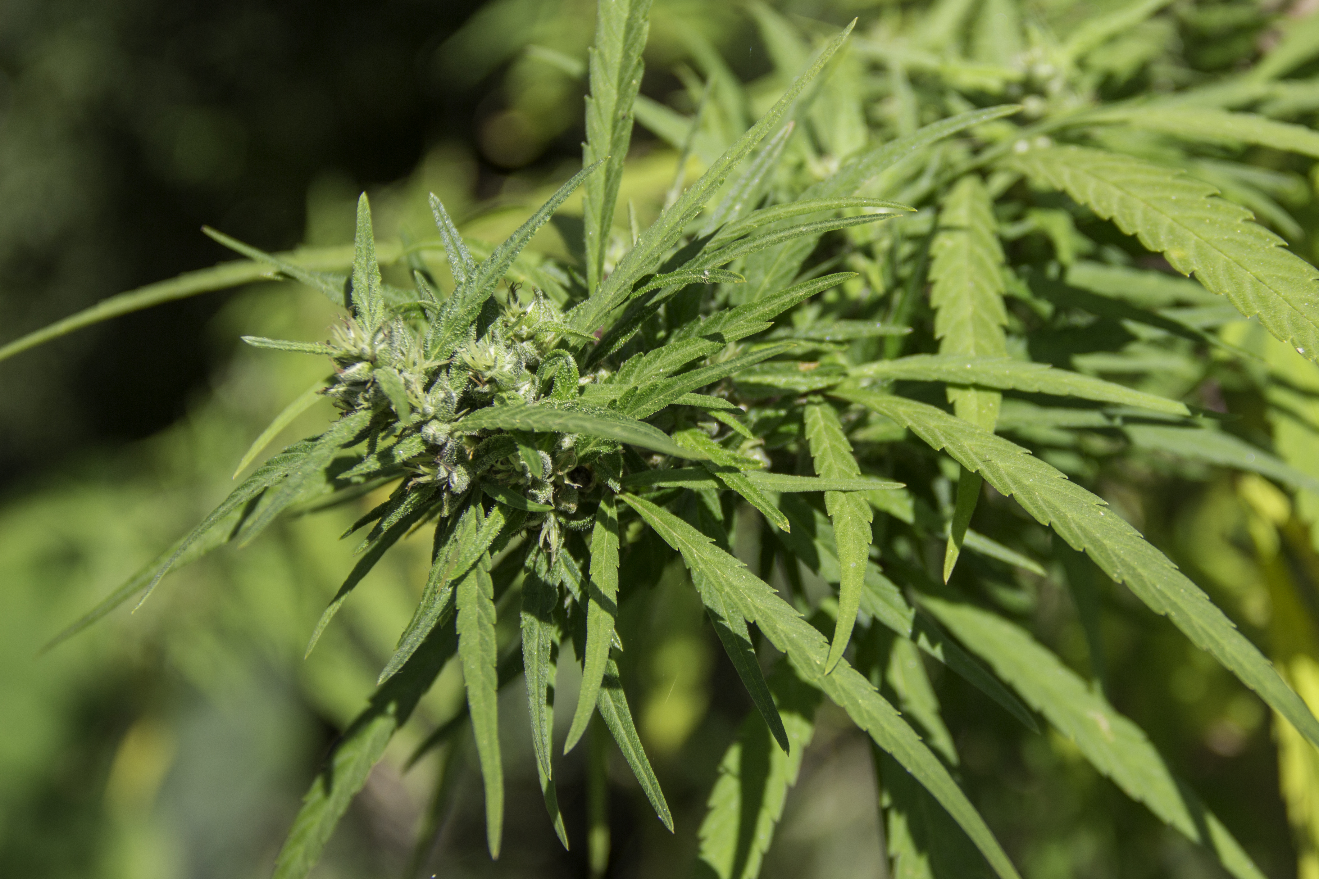 Cannabis sativa Hashish Plant in village for medicine to animal in stomach problem